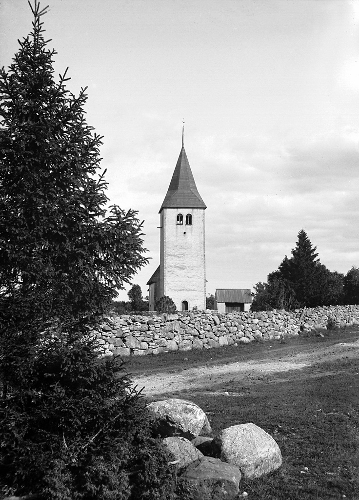 Viklau Church from the 12th century, on the island of Gotland. Viklau kyrka på Gotland, från 1100-talet. Parish (socken): Viklau Province (landskap): Gotland Municipality (kommun): Gotland County (län): Gotland Photograph by: Einar Erici Date: 1914 Format: Glass plate negative Kulturmiljöbild: 16000200028534 (Persistent URL) Read more about the photo database (in english)